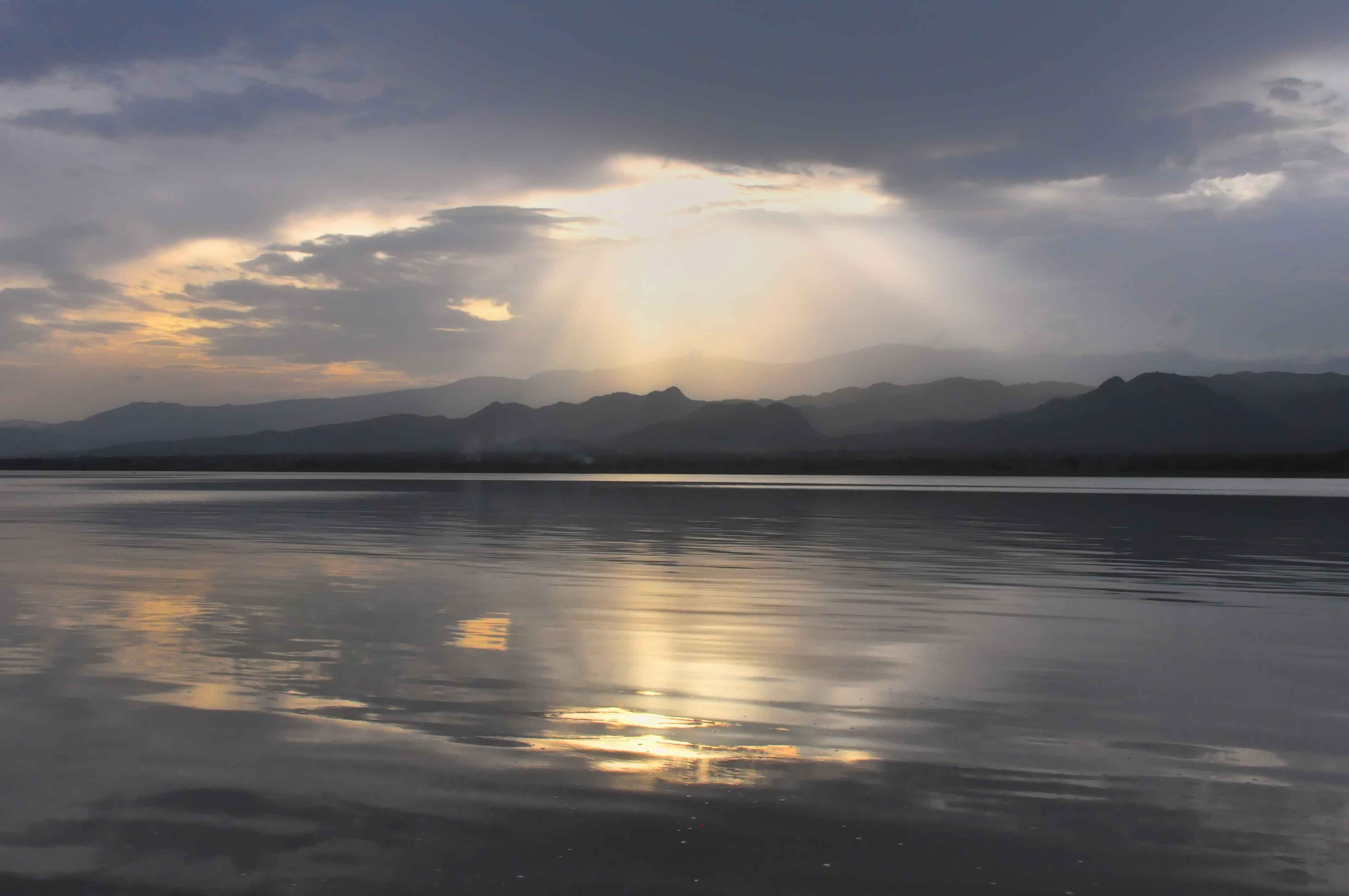 Hippos, Crocs and wading birds in abundance.